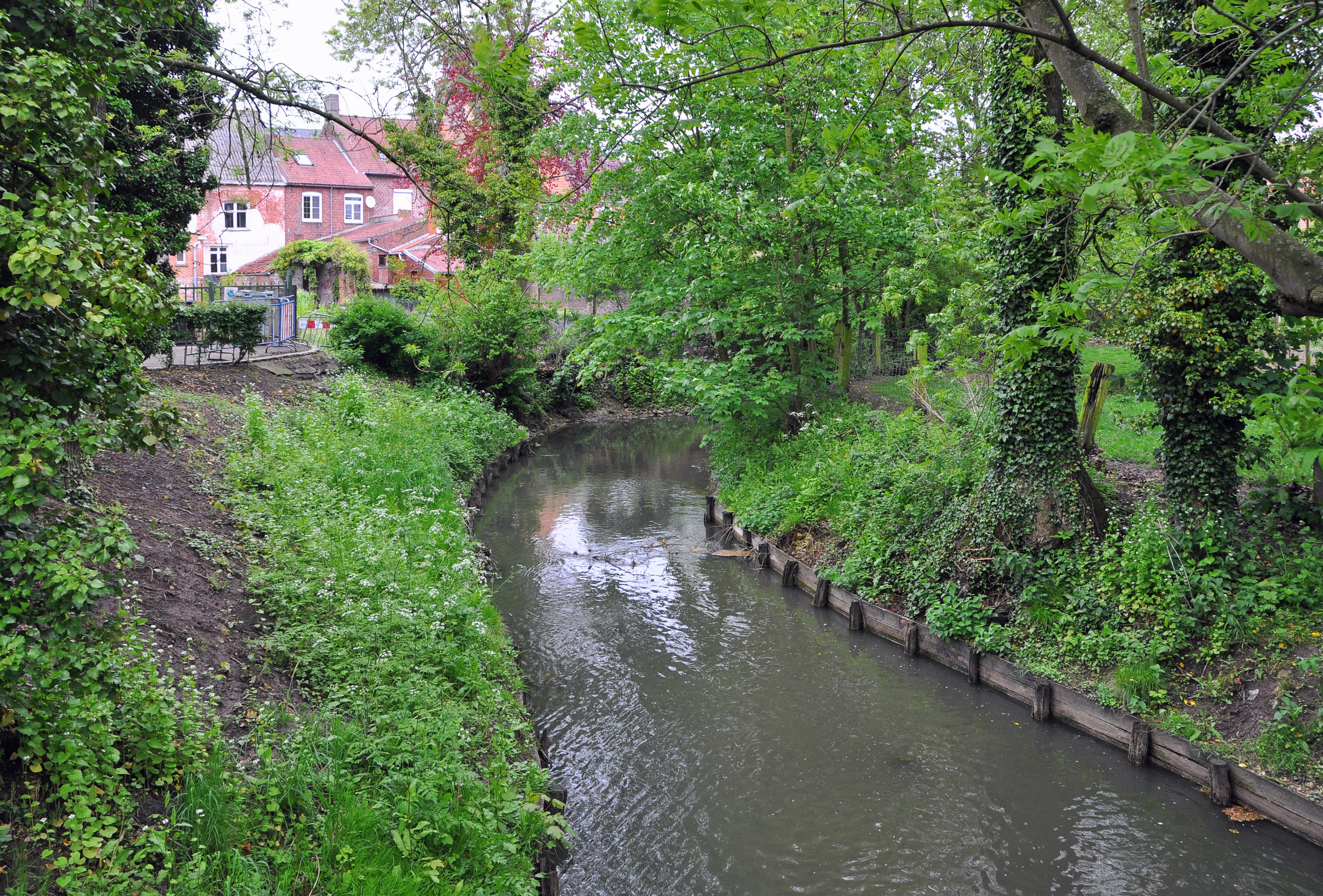 Esquelbecq (département du Nord, France): the Yser river